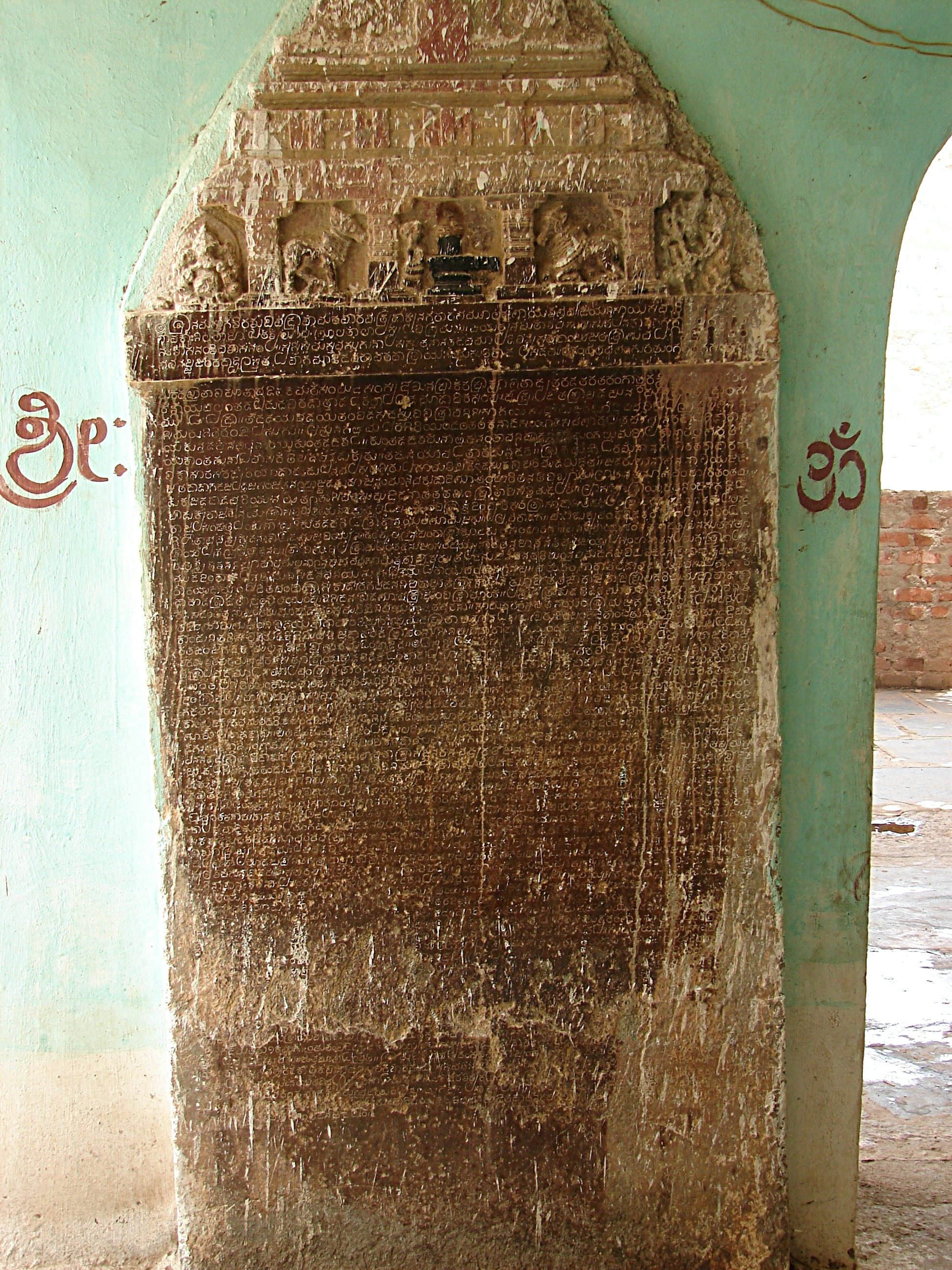 photo of an old Kannada inscription (from the Rashtrakuta period) at the 9th century Navalinga temples in Kuknur, Koppal district, Karnataka state, India